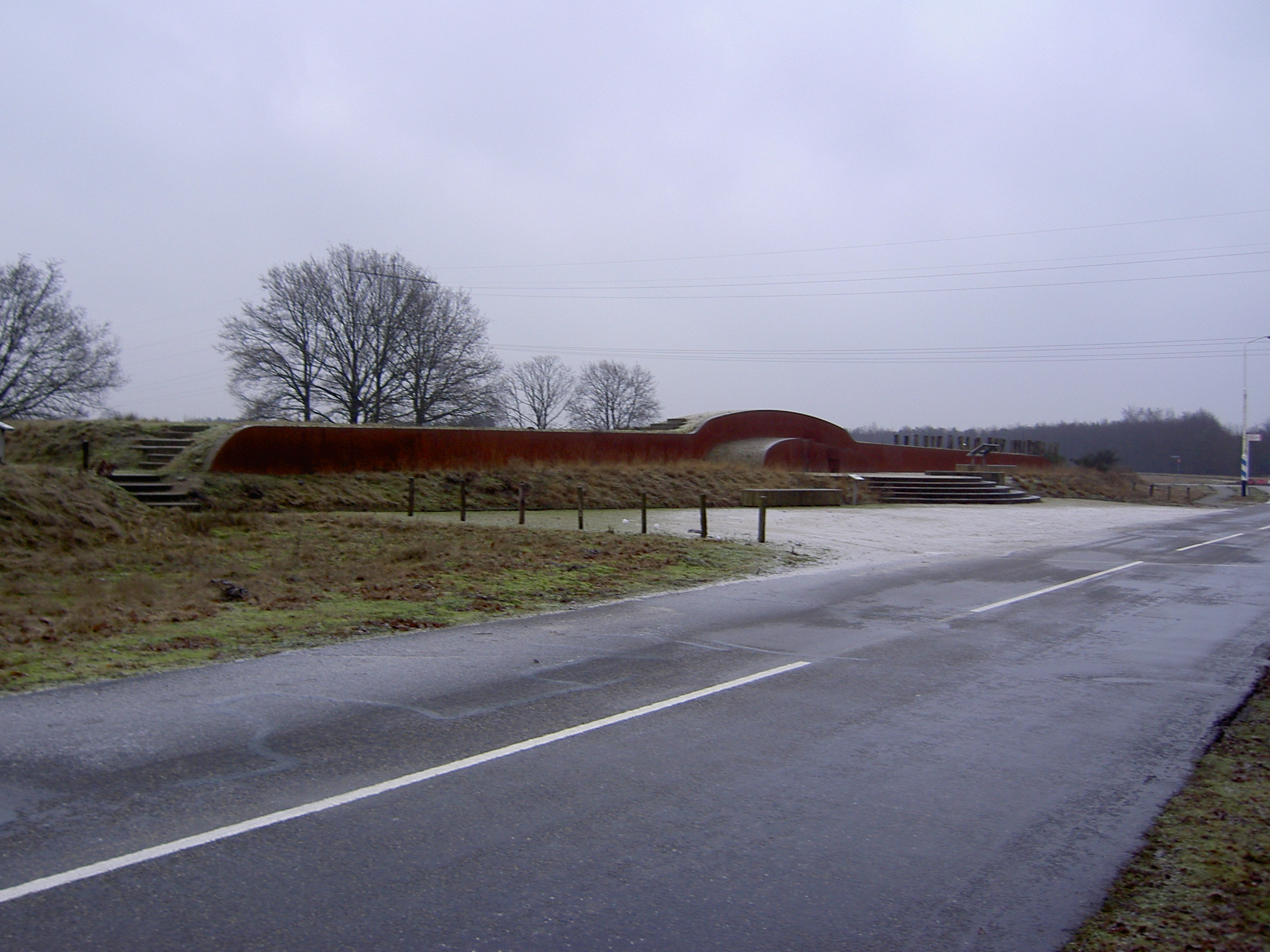 Vorstengrafheuvel